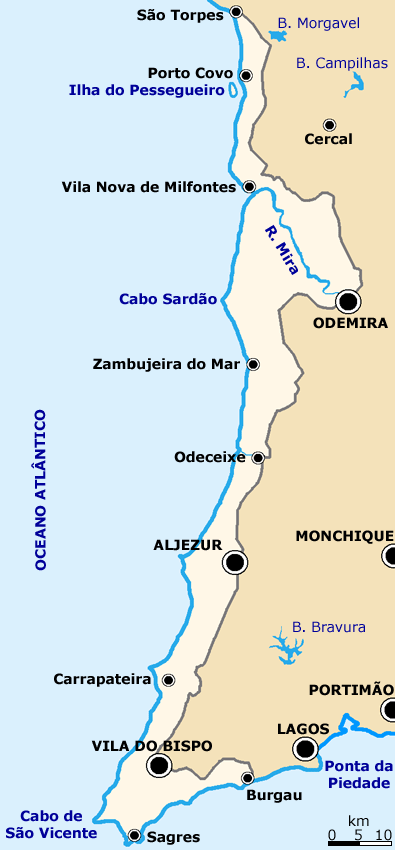 Map of the Nature Park of Southwest Alentejo and Cape St. Vicente Coast